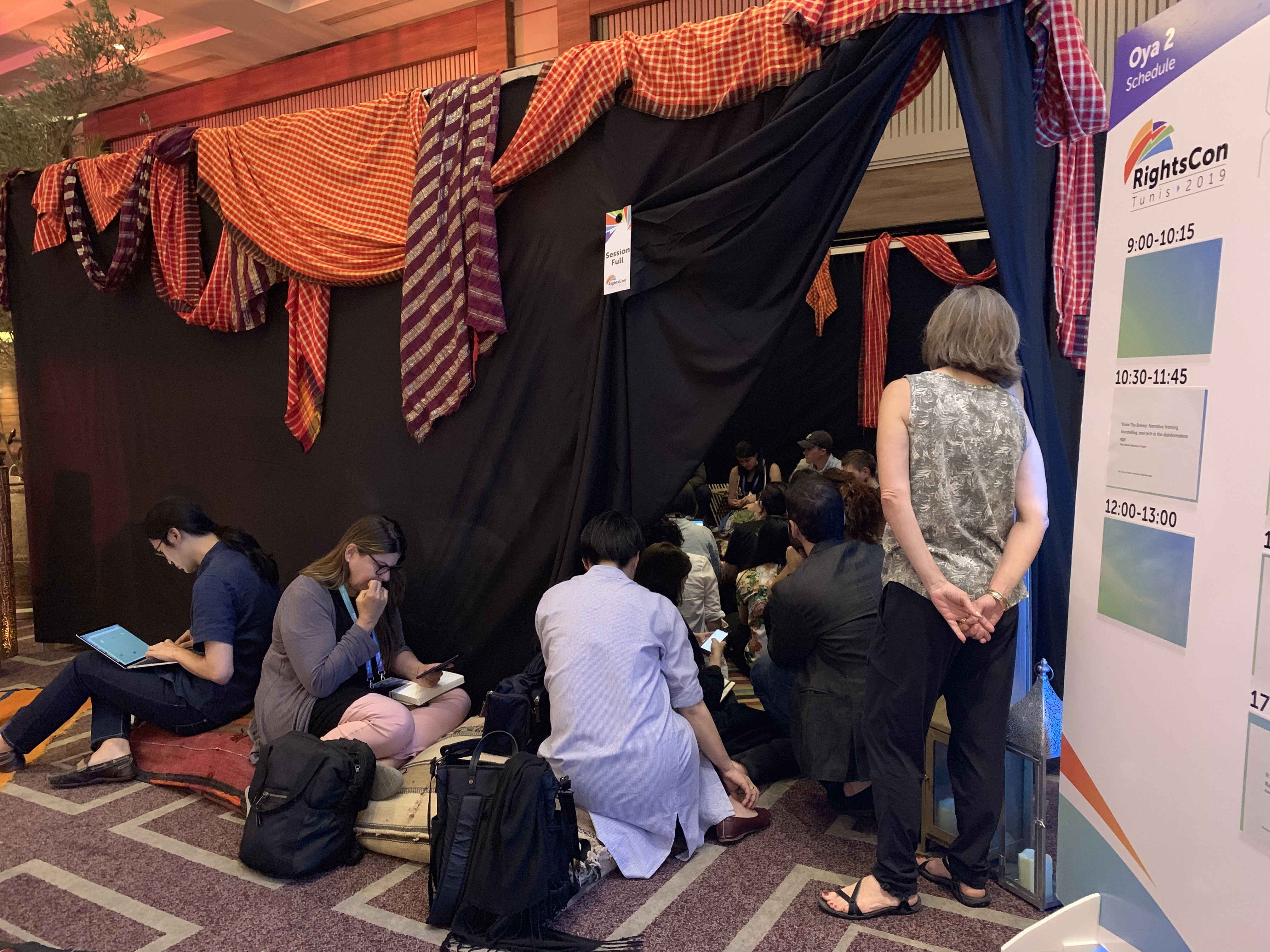 Room Oya 2 - One of the rooms hosting rights Con 2019 sessions in Tunis